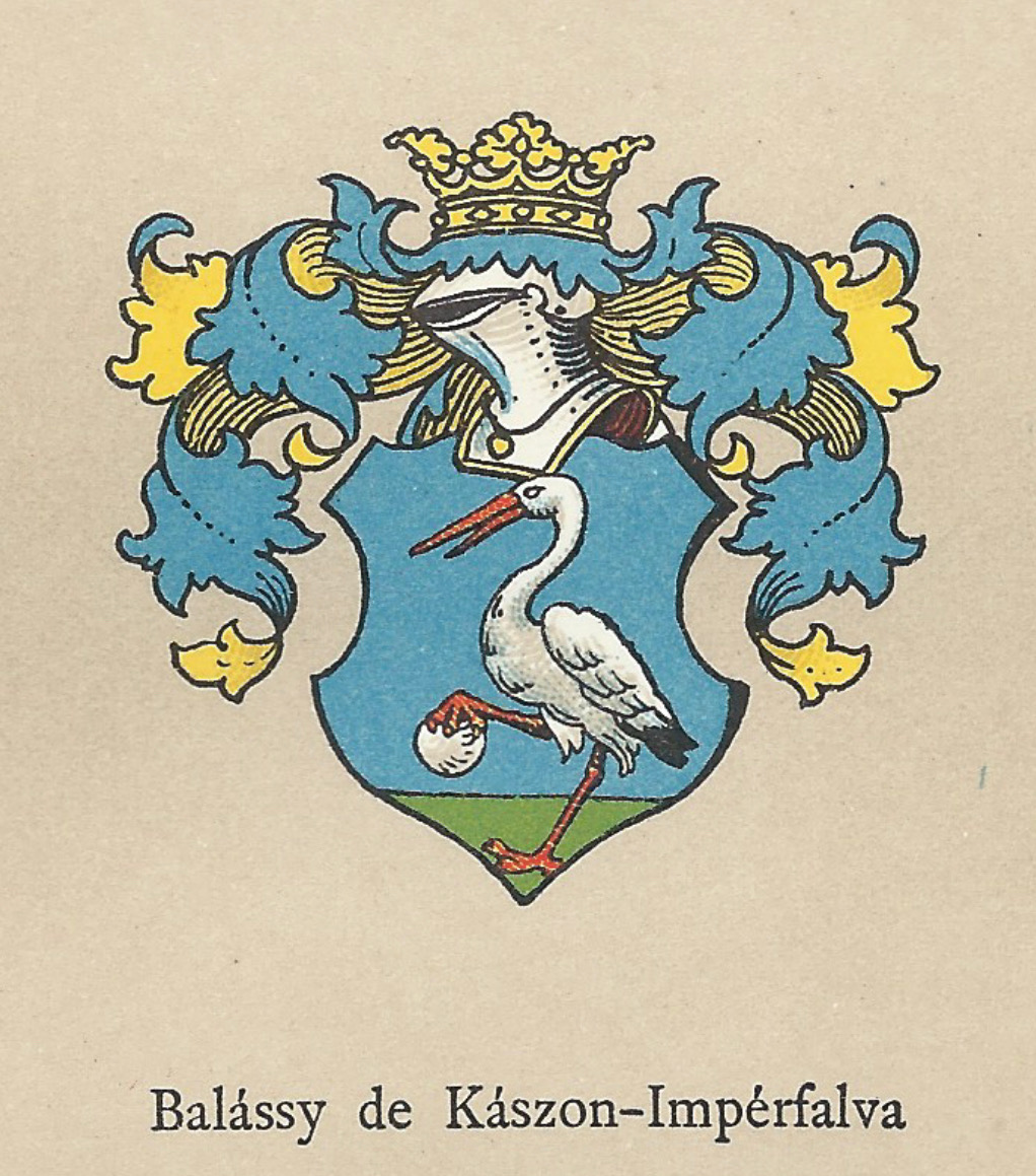 Coat of Arms of the Balási family